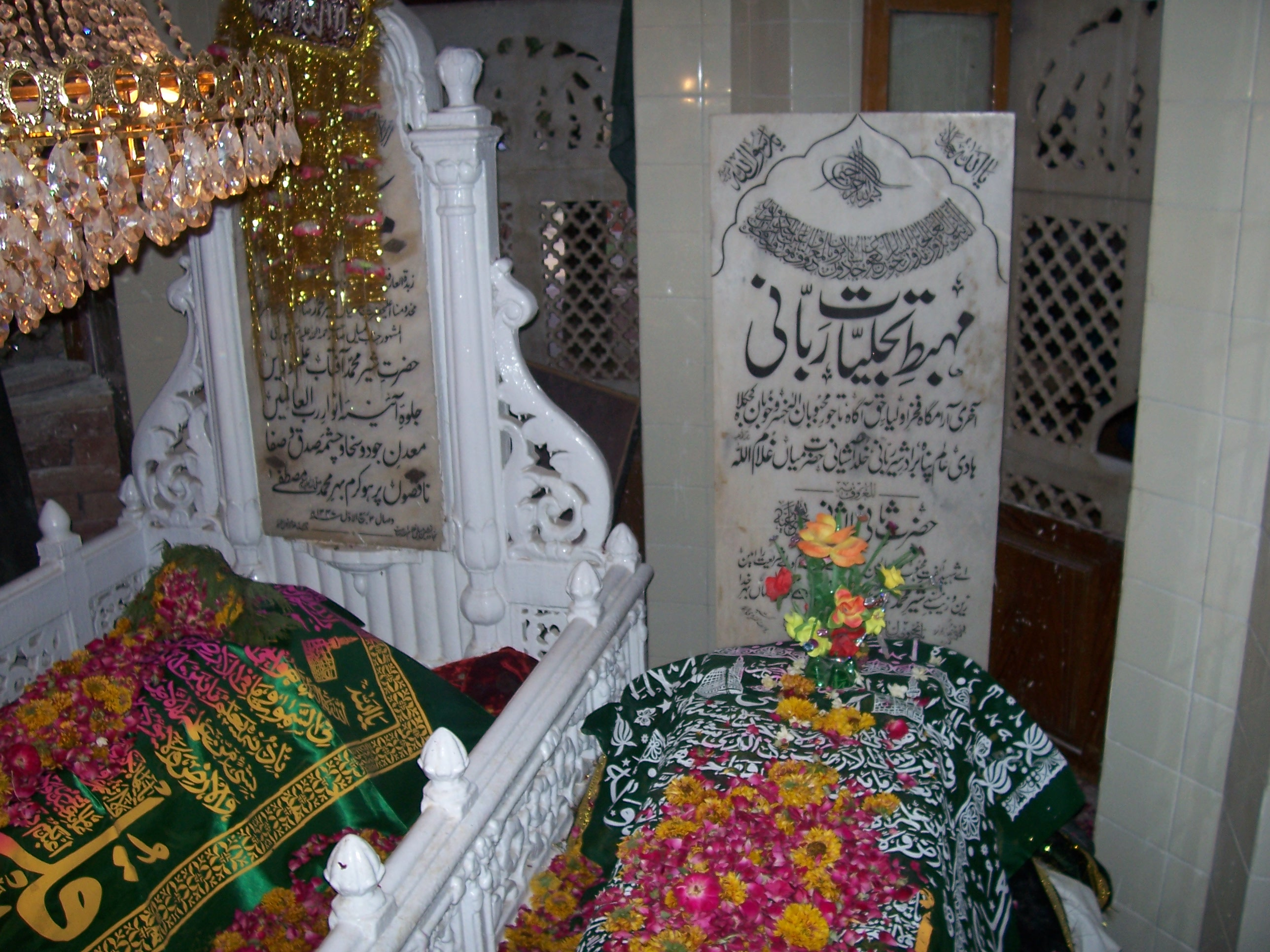 Inside of the Shrine Of Hazrat Mian Sher Muhammad Sharaqpuri (R.A)